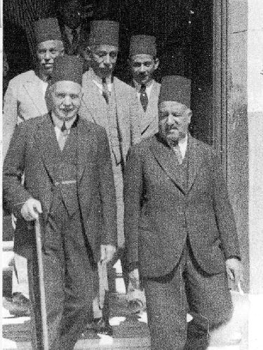 Talaat Harb with Medhat Yaken in inauguration branch of Banque Misr 1935